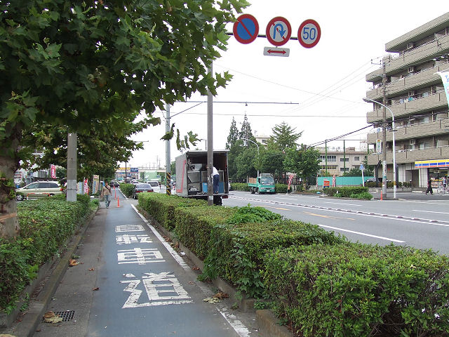 自転車専用道路 撮影日：2006年 9月30日 撮影地：（神奈川県川崎市川崎区旭町） 撮影者：cory Road for bicycle only. Date: 2006-09-30 (Sep 30, 2006) Place: Asahicho Kawasaki Kawasaki Kanagawa, Japan. Author: ISAKA Yoji (cory)